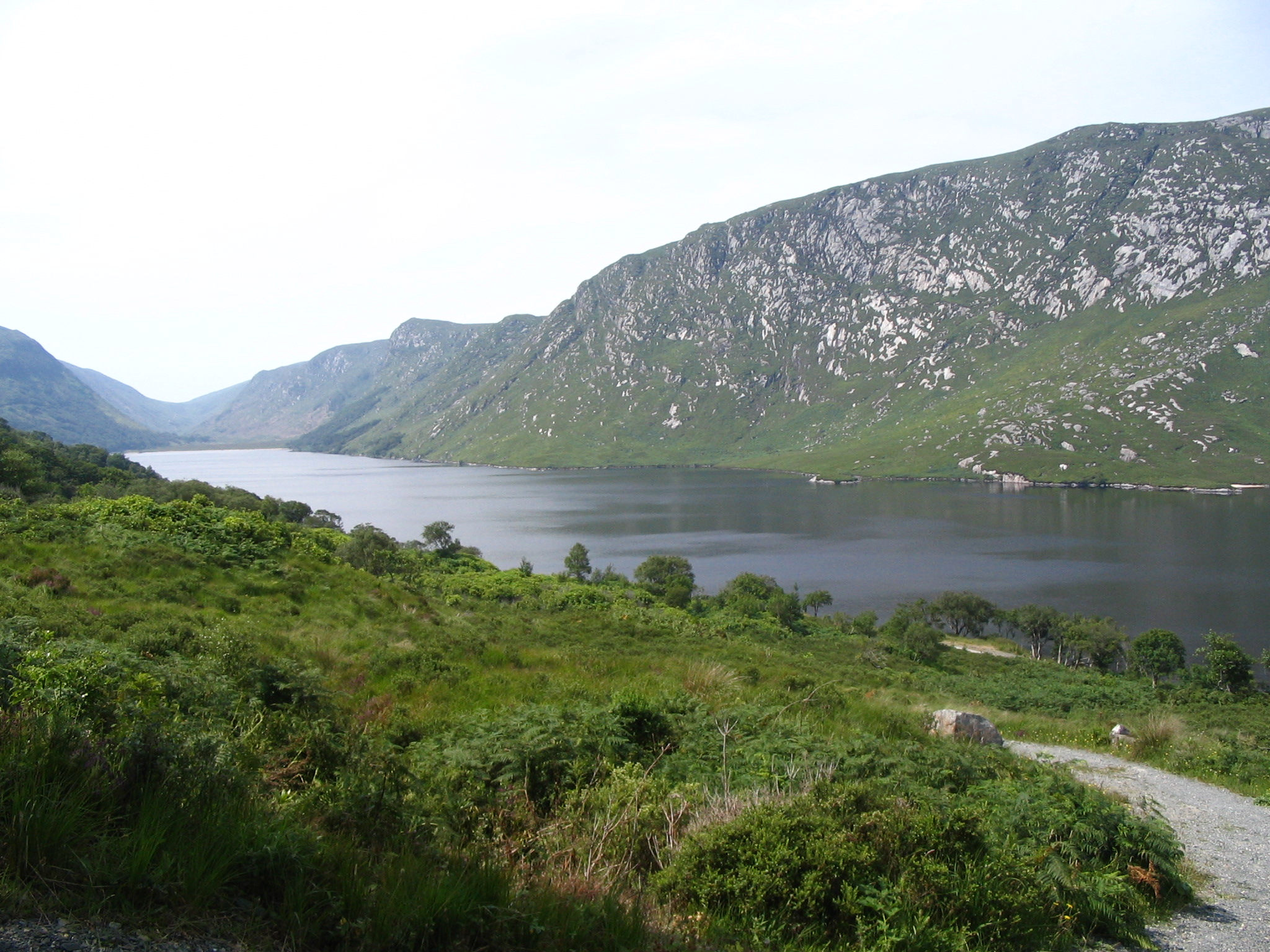 Glenveagh National Park - Lough Gleann - Donegal - Ireland